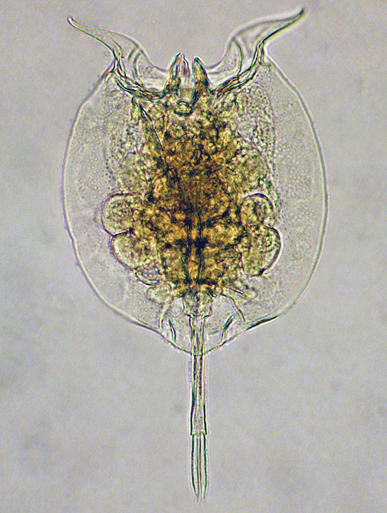 Pulchritia dorsicornuta, compound photomicrograph.